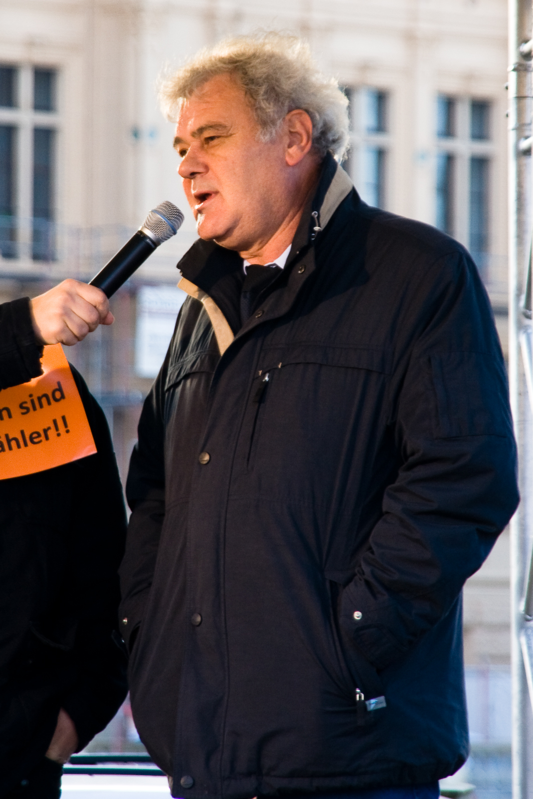 Wolfgang Methling on a demonstration in front of the local parliament of Mecklenburg-Vorpommern in Schwerin